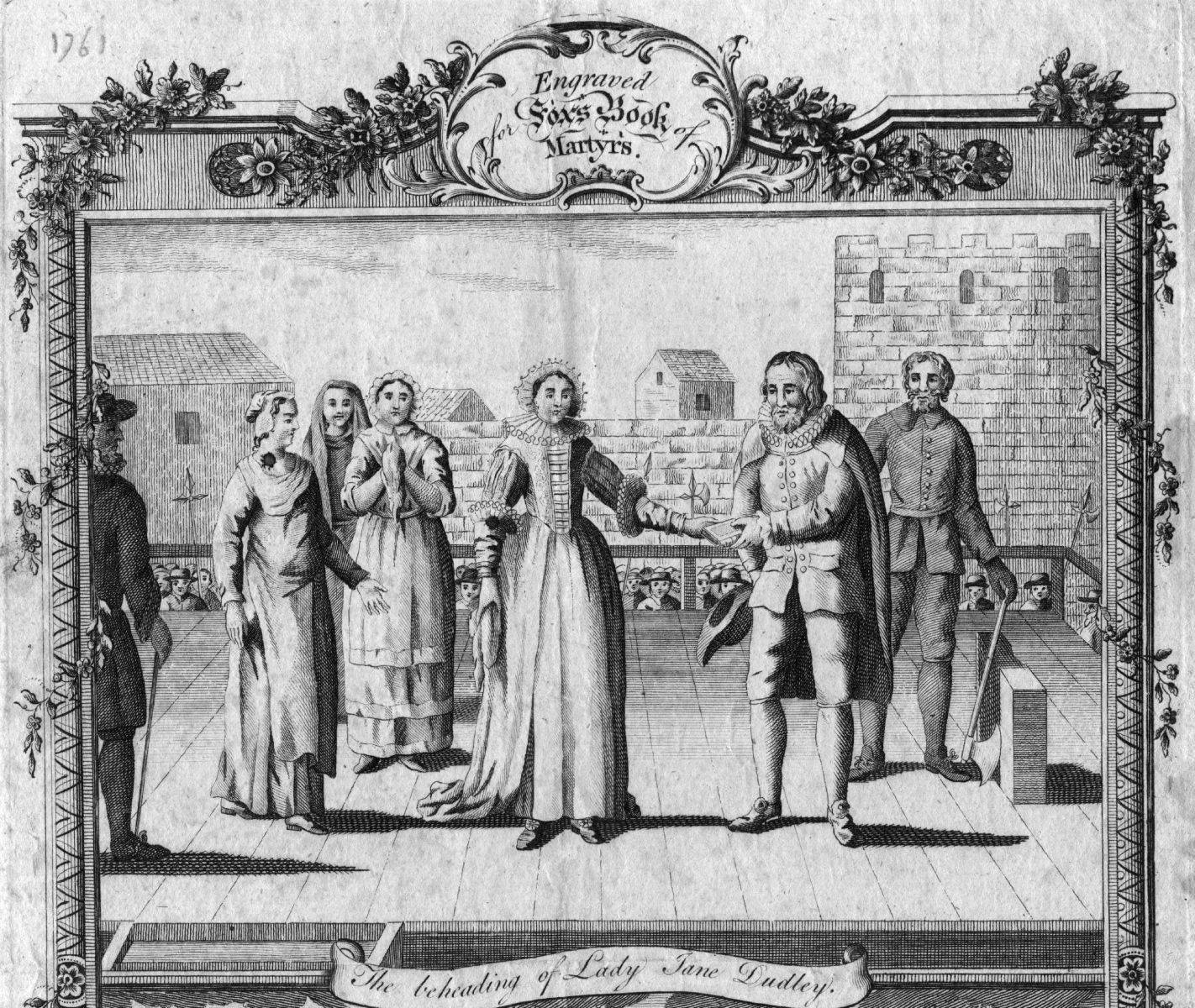 The death of Lady Jane Grey, from the 1761 edition of Foxe's Book of Martyrs edited by Martin Madan